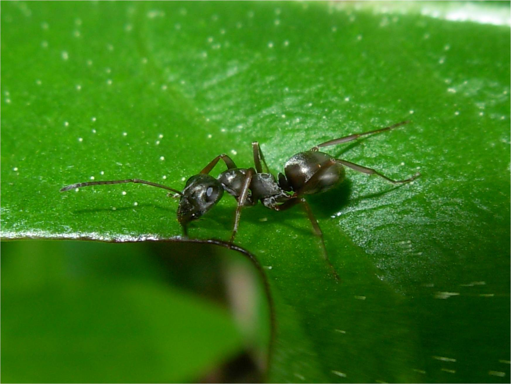 Lasius niger on leaf.